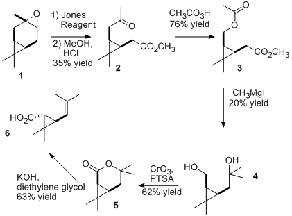 Synthesis of the acid moeity of pyrethrinn I, (+)-trans-chrysanthemic acid